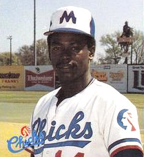 Professional baseball player Luis Encarnacion